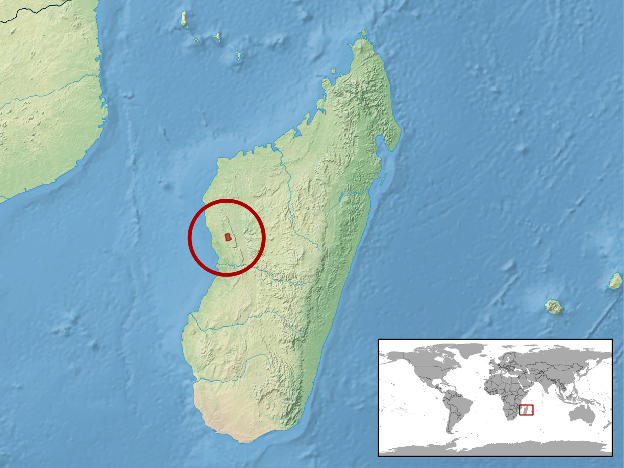 geographic distribution of Brookesia perarmata (Native: Madagascar)